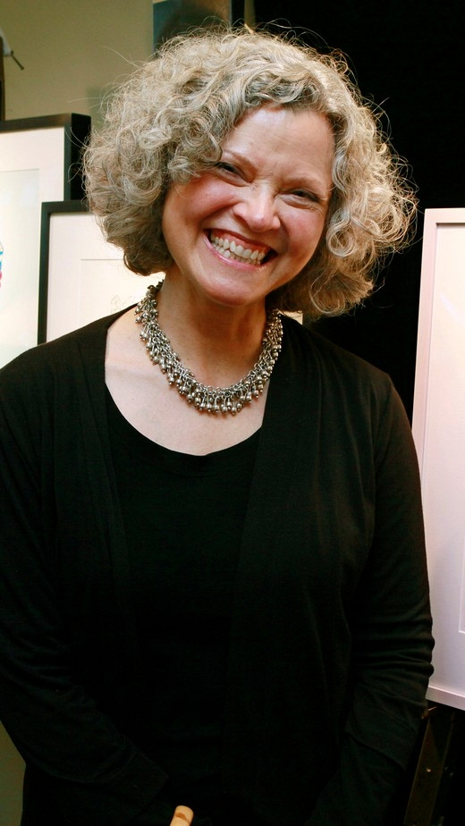 Barbara McClintock in New York, Thursday, May 5, 2011. More info is at